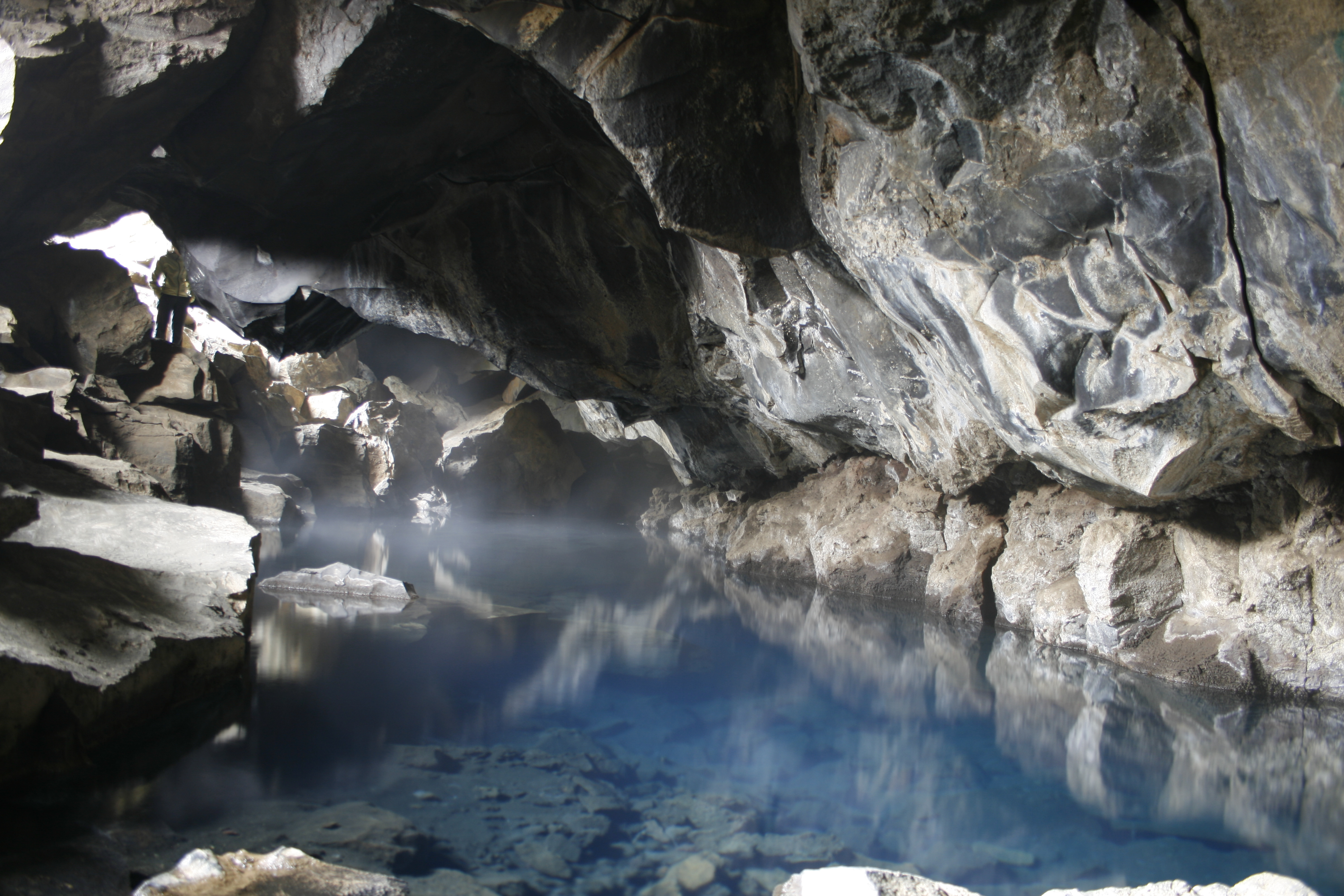 The cave Grjótagjá in the Mývatn region on Iceland. Below of the lava roof the cave exists with crystal clear water.